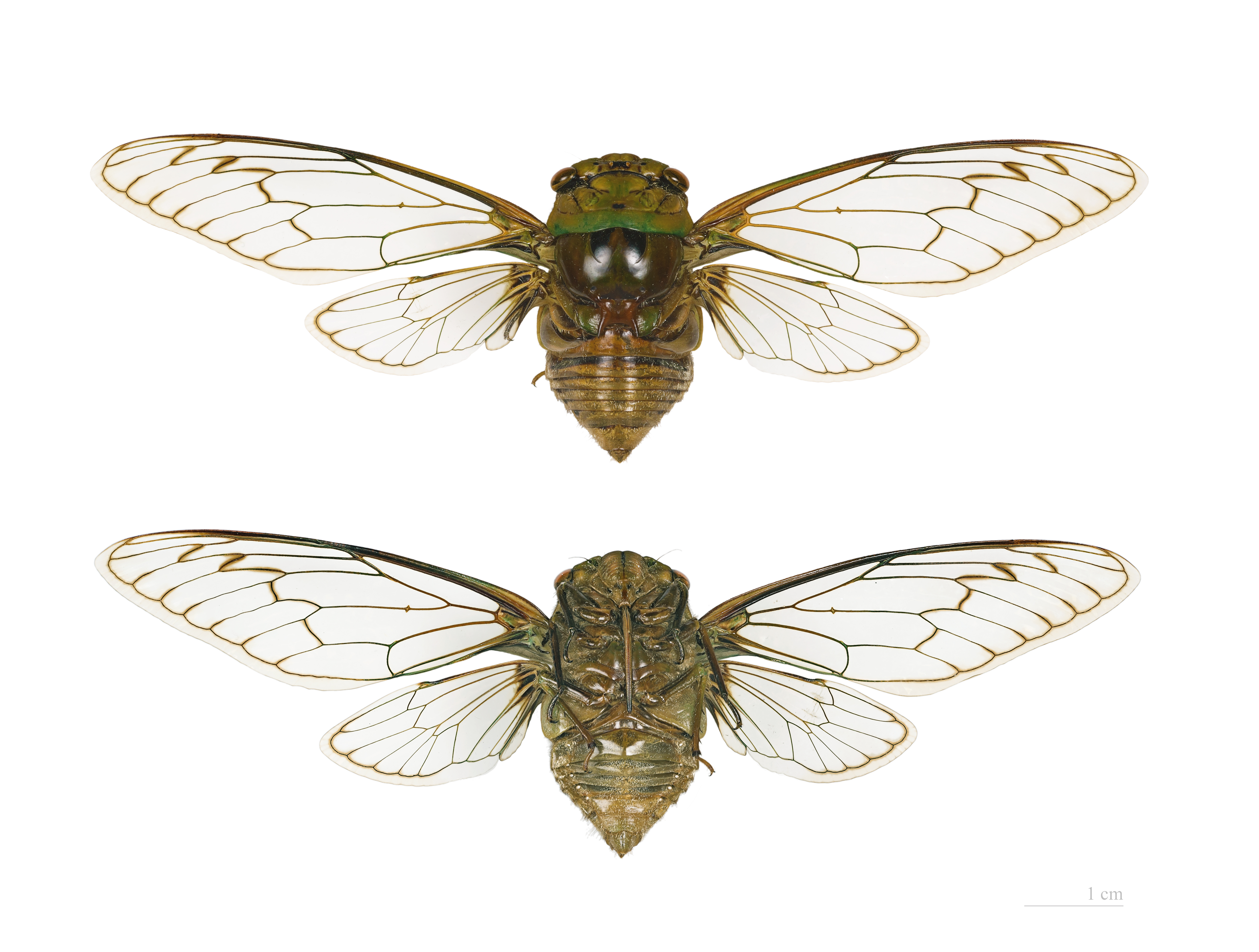 Cicada - Two views of same specimen Locality : “Rue Pasteur ” Cayenne, French Guiana